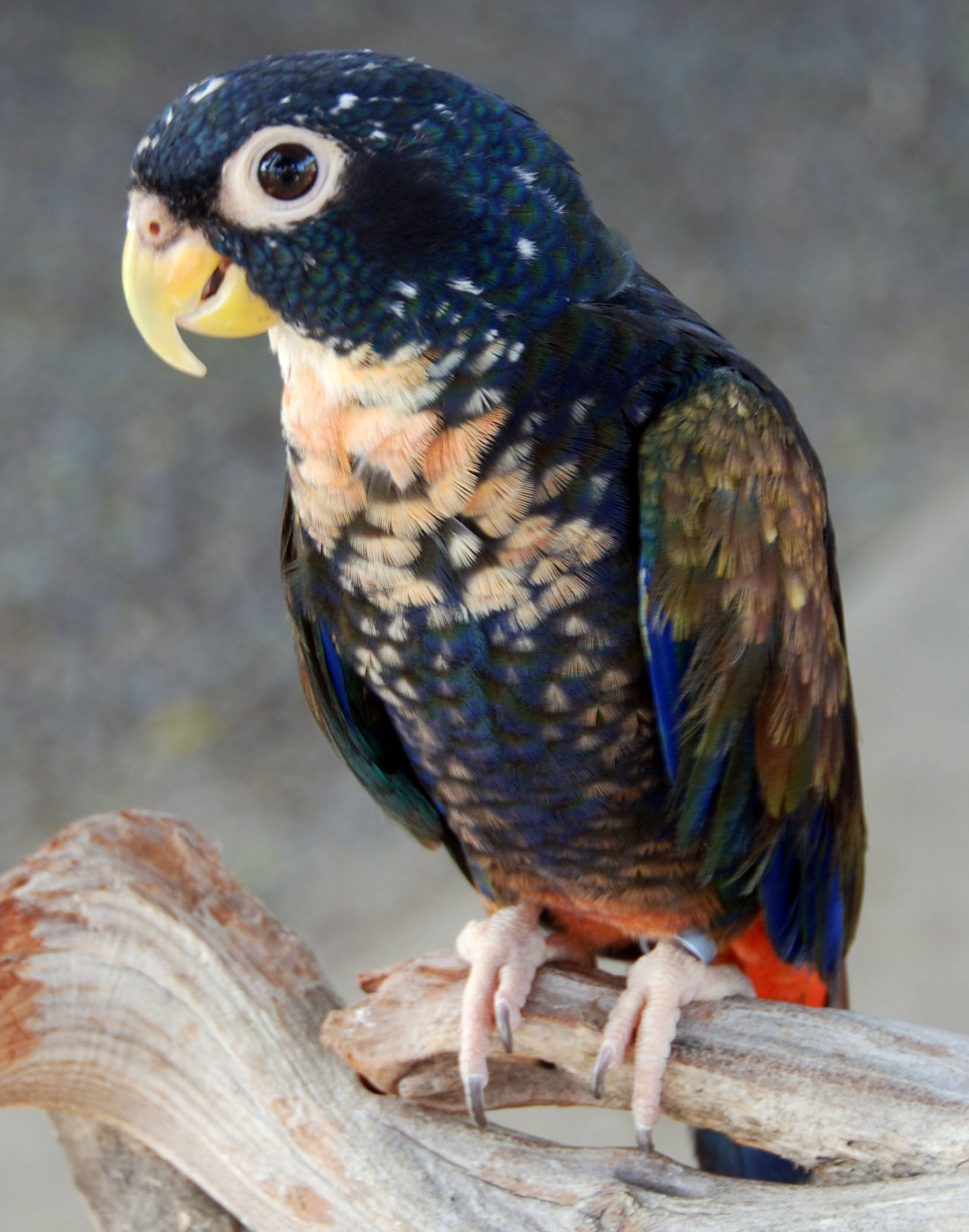 Bronze-winged Parrot (Pionus chalcopterus) perching on a branch.